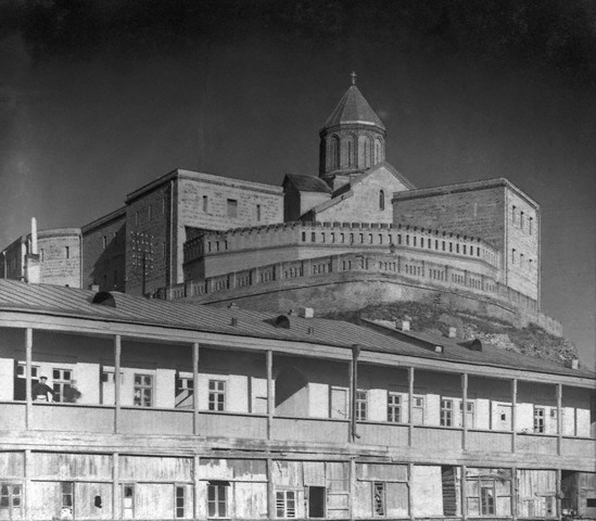 Metekhi Prison and Church. The Russian czars built a strong prison around the Metekhi Church in the city they called Tilfis, later in its native Georgian known as Tbilisi. The prison was demolished in 1937.